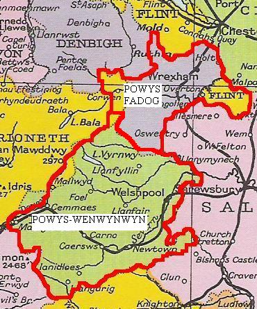 based on a Victorian map where the copyright has expired this is entirely my own work